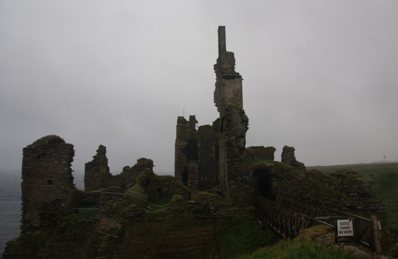 Castle Sinclair Girnigoe, near Wick, Scotland